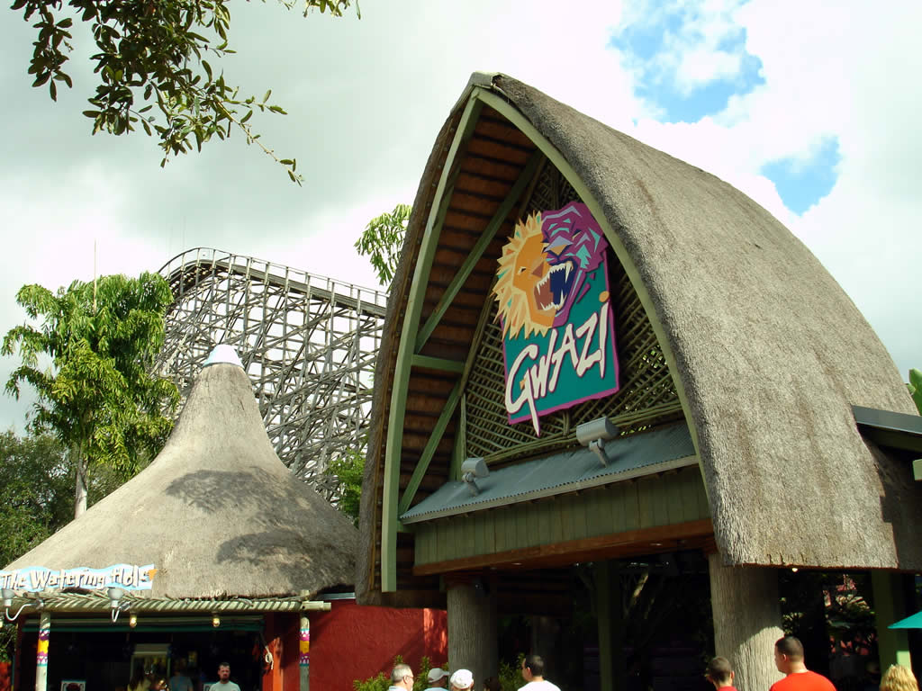 A view of Gwazi's entrance and the Lion lift hill.